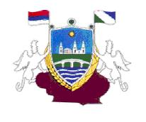 Coat of arms of Srbobran